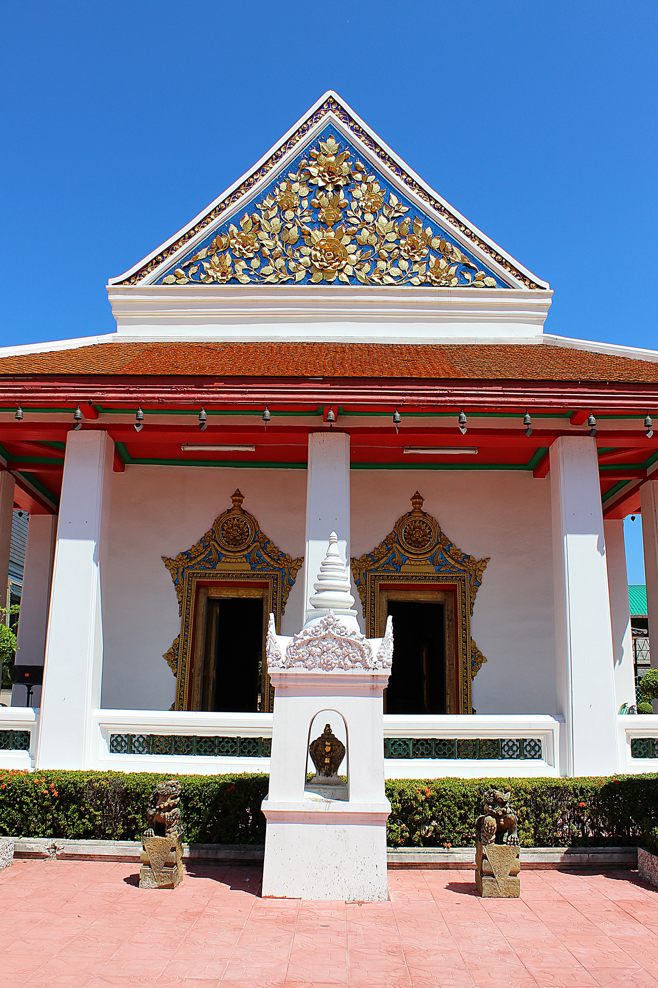 Wat Kharuhabodi, a Buddha temple.